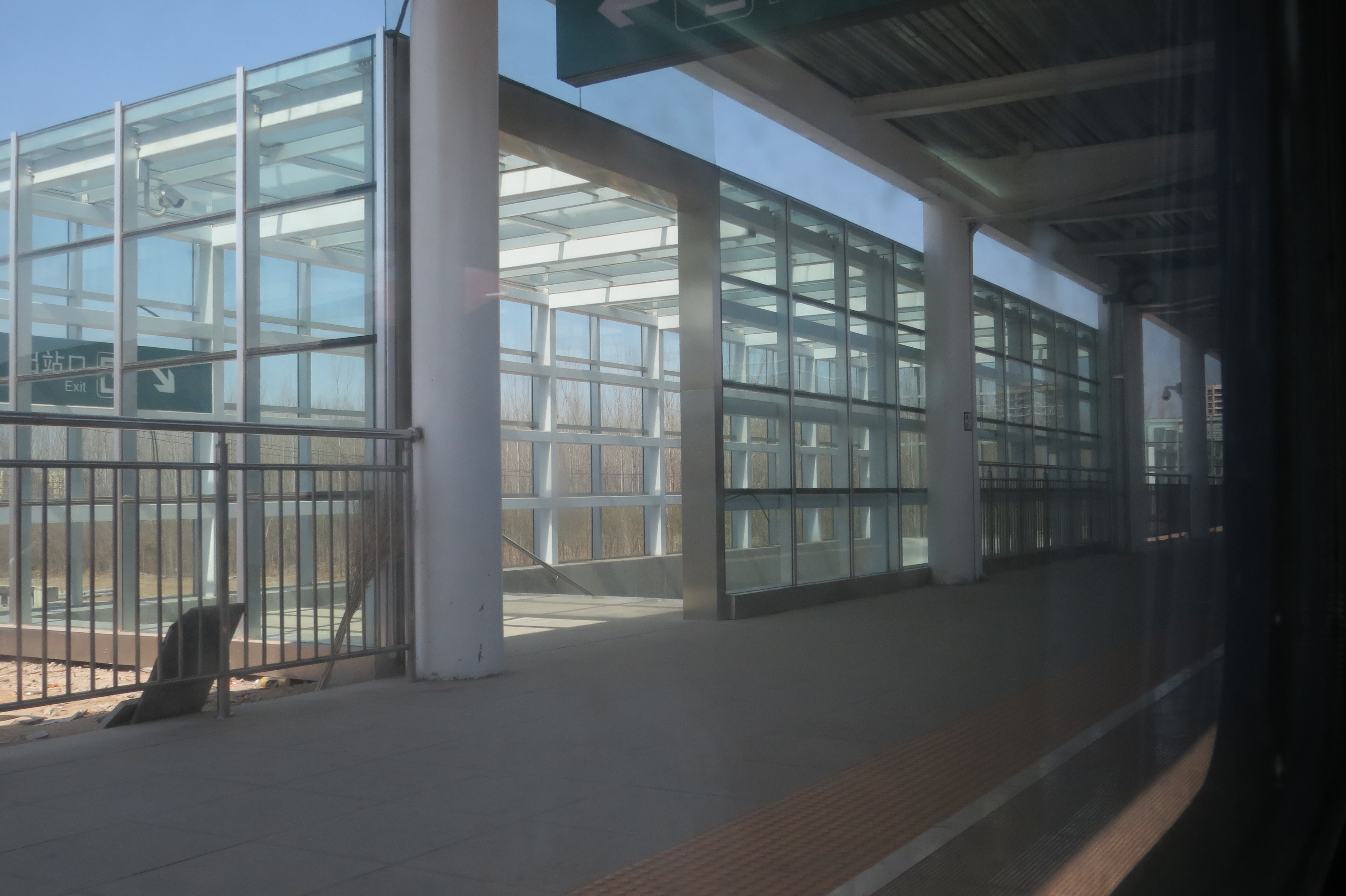 T168 even stopped here for a while. This is the exit channel.